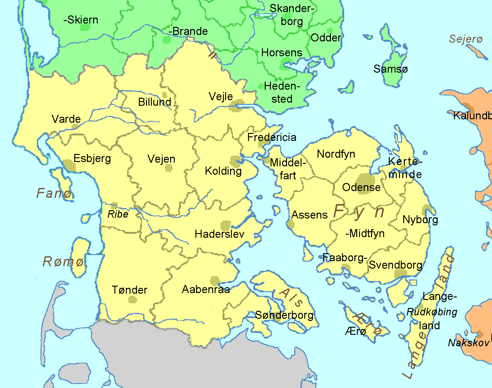 Municipalities of Denmark effective January 1 2007.